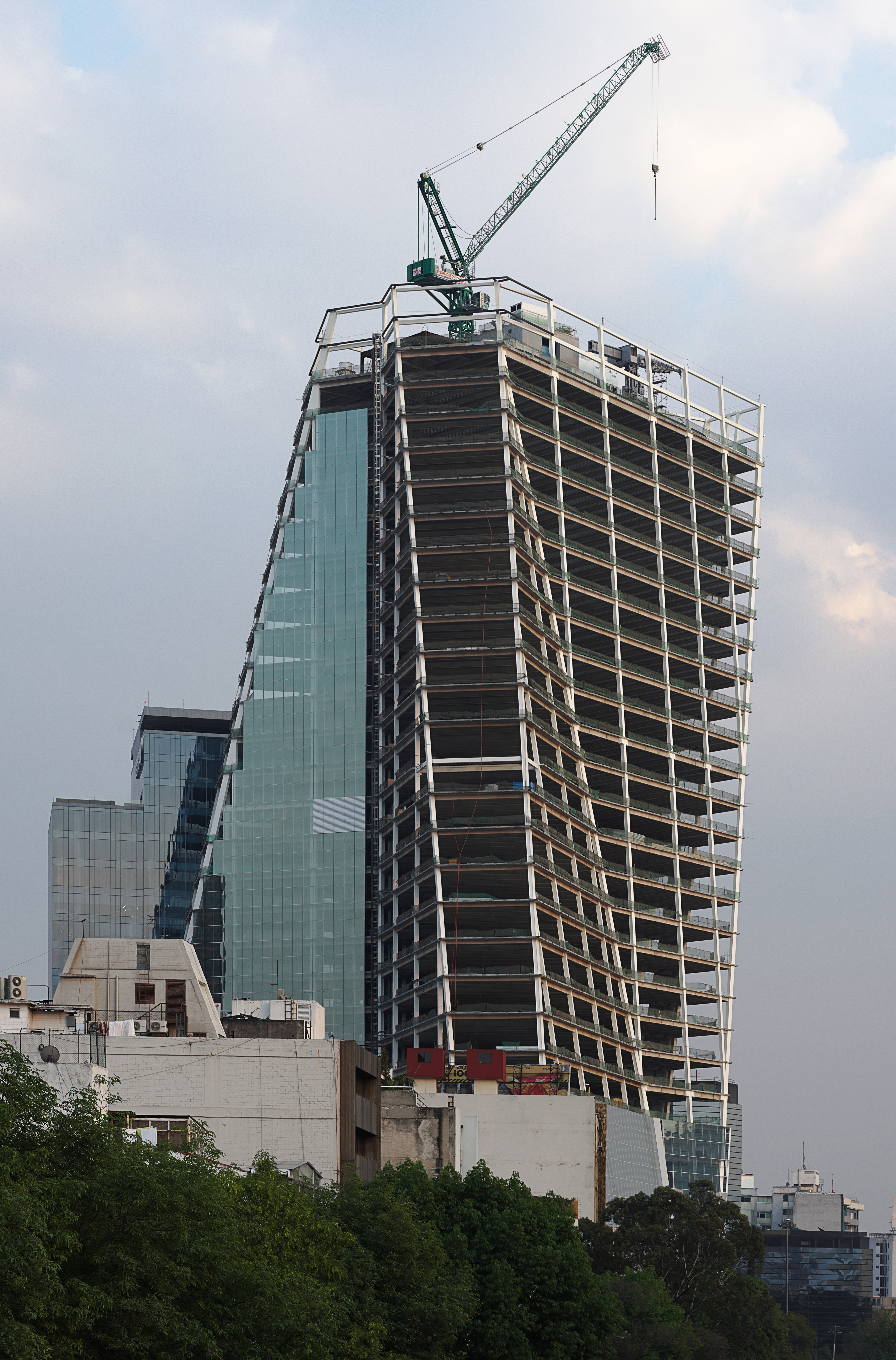 Manacar Tower under construction, Mexico City, Mexico, February 2017